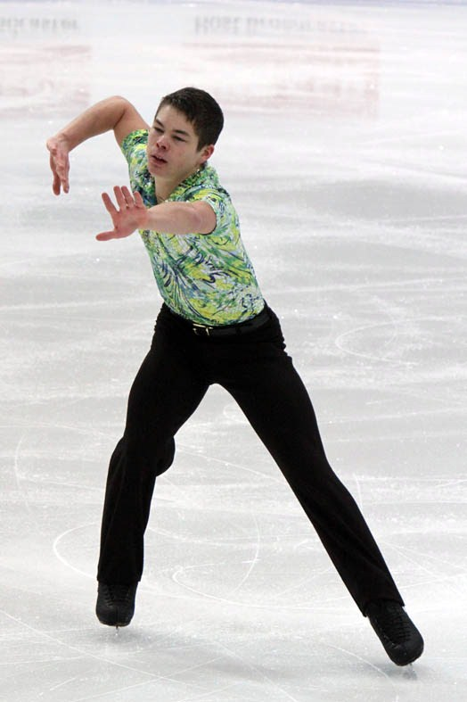 Valtter Virtanen at the 2011 European Figure Skating Championships.